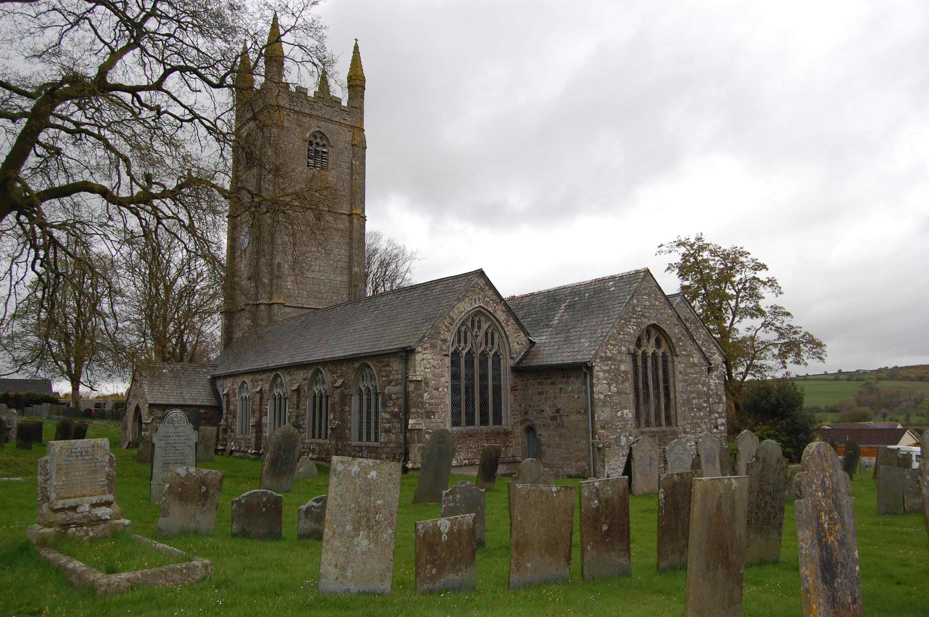 St Cleer Parish Church, Cornwall, United Kingdom. Unmodified from camera.